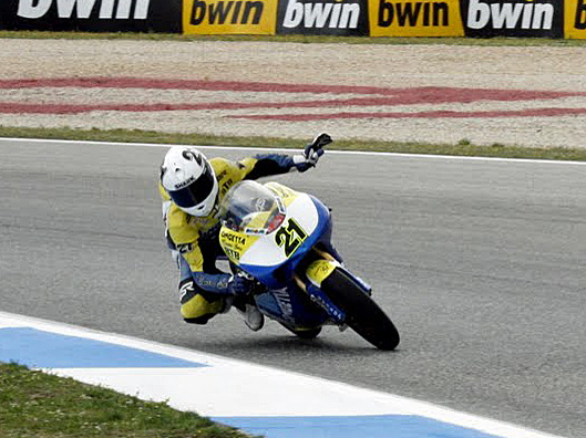 Harry Stafford 2011 Estoril